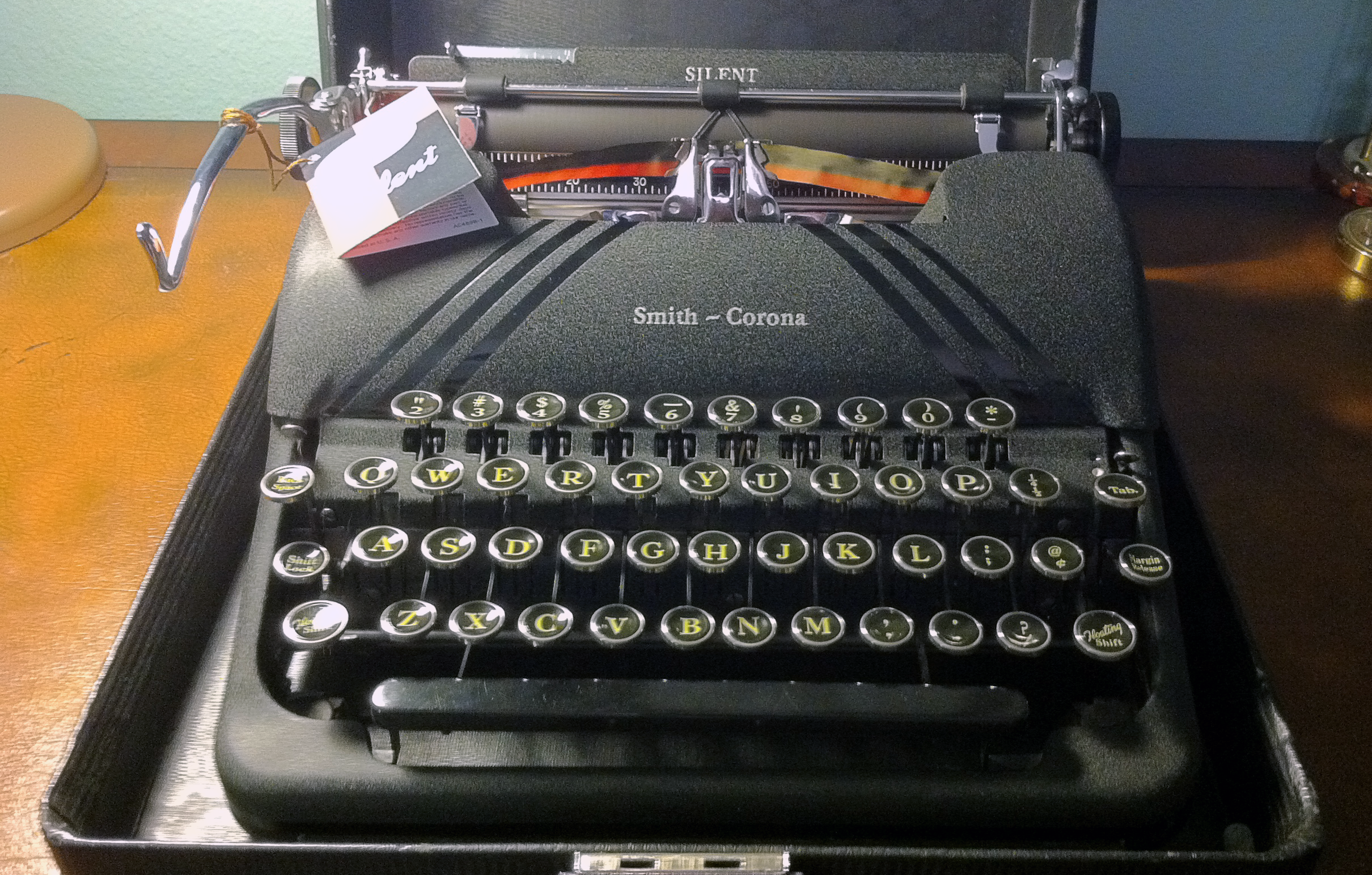 The Silent Speedline was the top of the line portable model from Smith Corona from 1939 to 1949. This specimen (S/N: 4S 180130) dates from 1948.